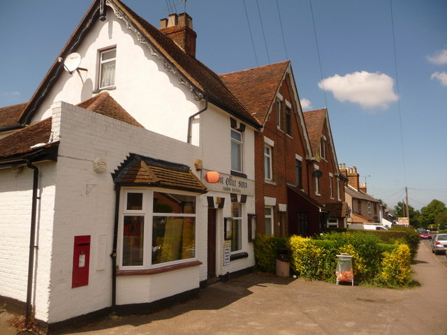 Boughton Monchelsea: post office and postbox № ME17 192 Looking through the shop window, this would appear to be a disused facility. In fact, while the shop is indeed no longer trading, the post office remains in the other half of the floor space, which has had a stud wall put through so from inside the office you would not realise there had been a shop alongside. The postbox set into the wall is an Elizabeth II-reign box.